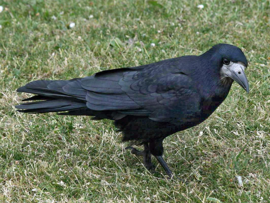 Rook (Corvus frugilegus) in Ayr, Scotland which was the home of Robert Burns